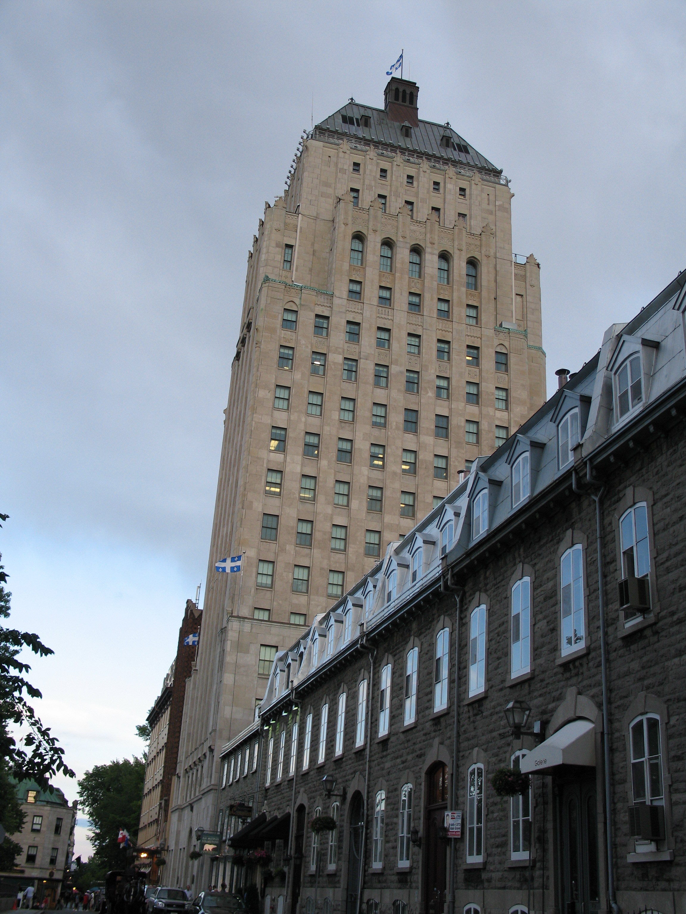 The Price Building, located at 65 Sainte-Anne Street, in the old city of Quebec City. The building is the head office of the Caisse de dépôt et placement du Québec and the official residence of the Premier of Québec